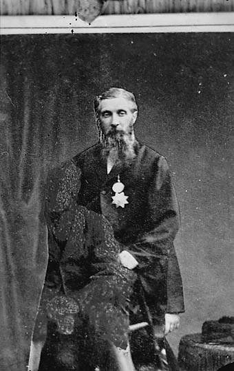 1 negative : glass, wet collodion, b&w ; 11 x 16.5 cm.